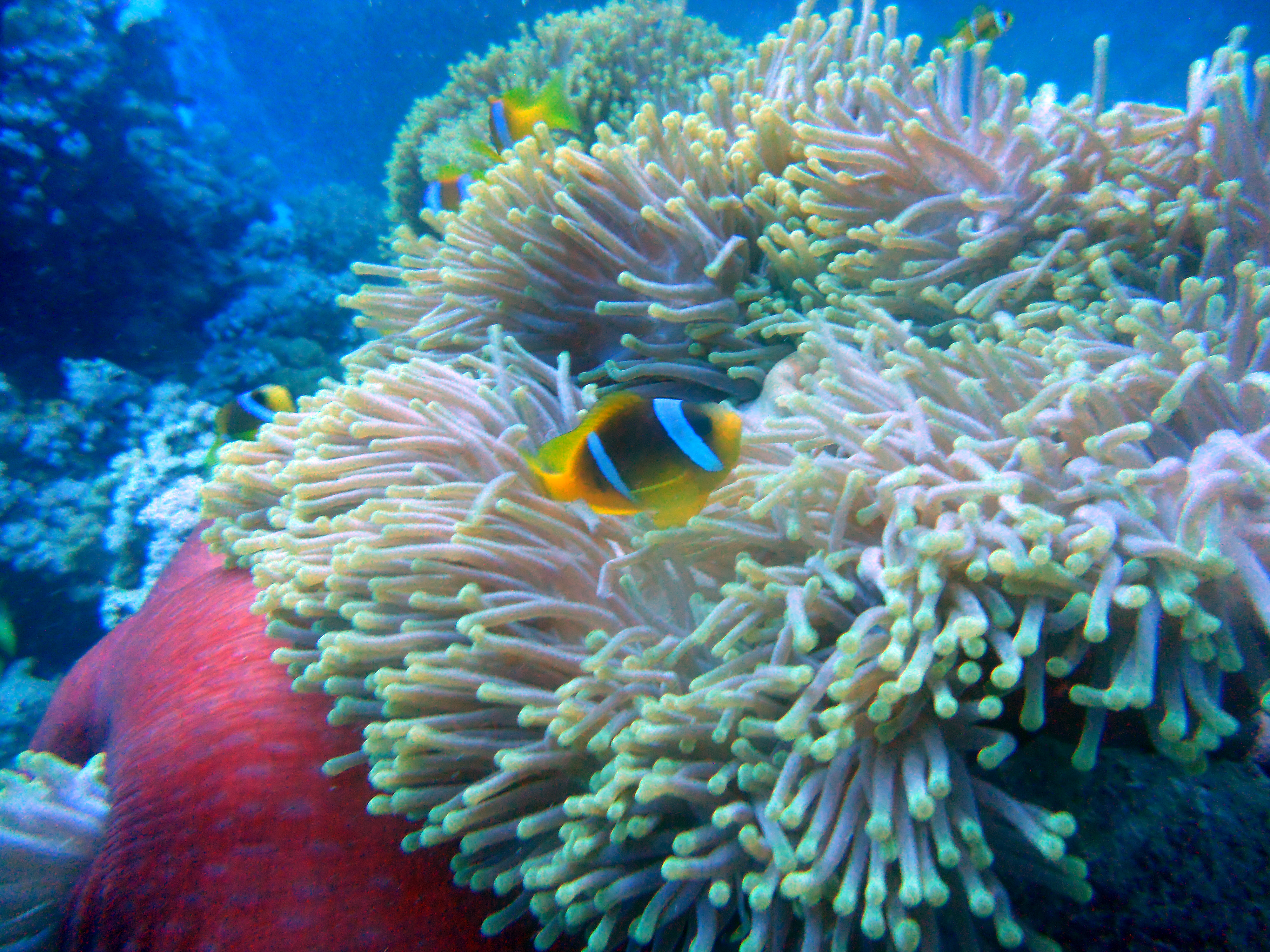 Amphiprion bicinctus on Heteractis magnifica St. John Reef, Red Sea, Egypt